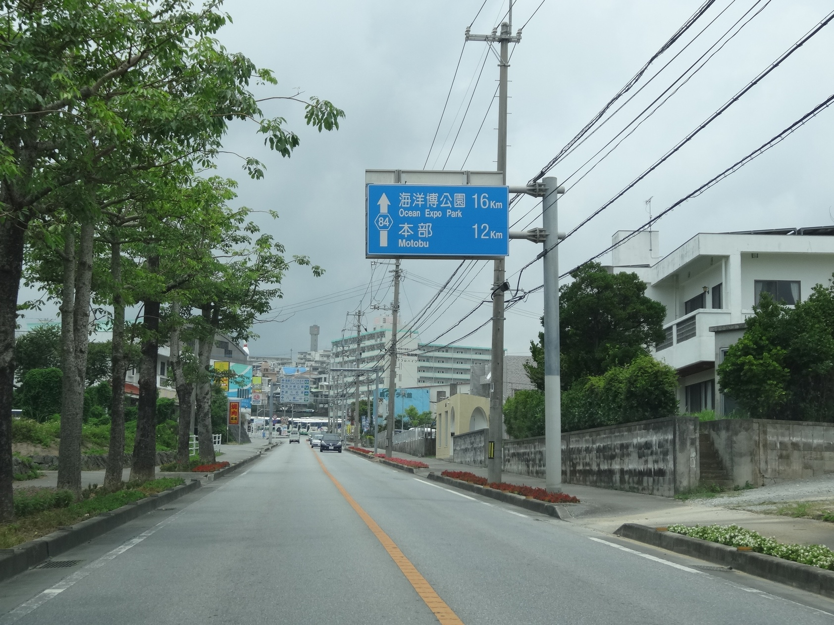 Okinawa Prefectural Road No.84 ; Nago - Motobu Line (Miyazato, Nago City, Okinawa Prefecture, Japan)